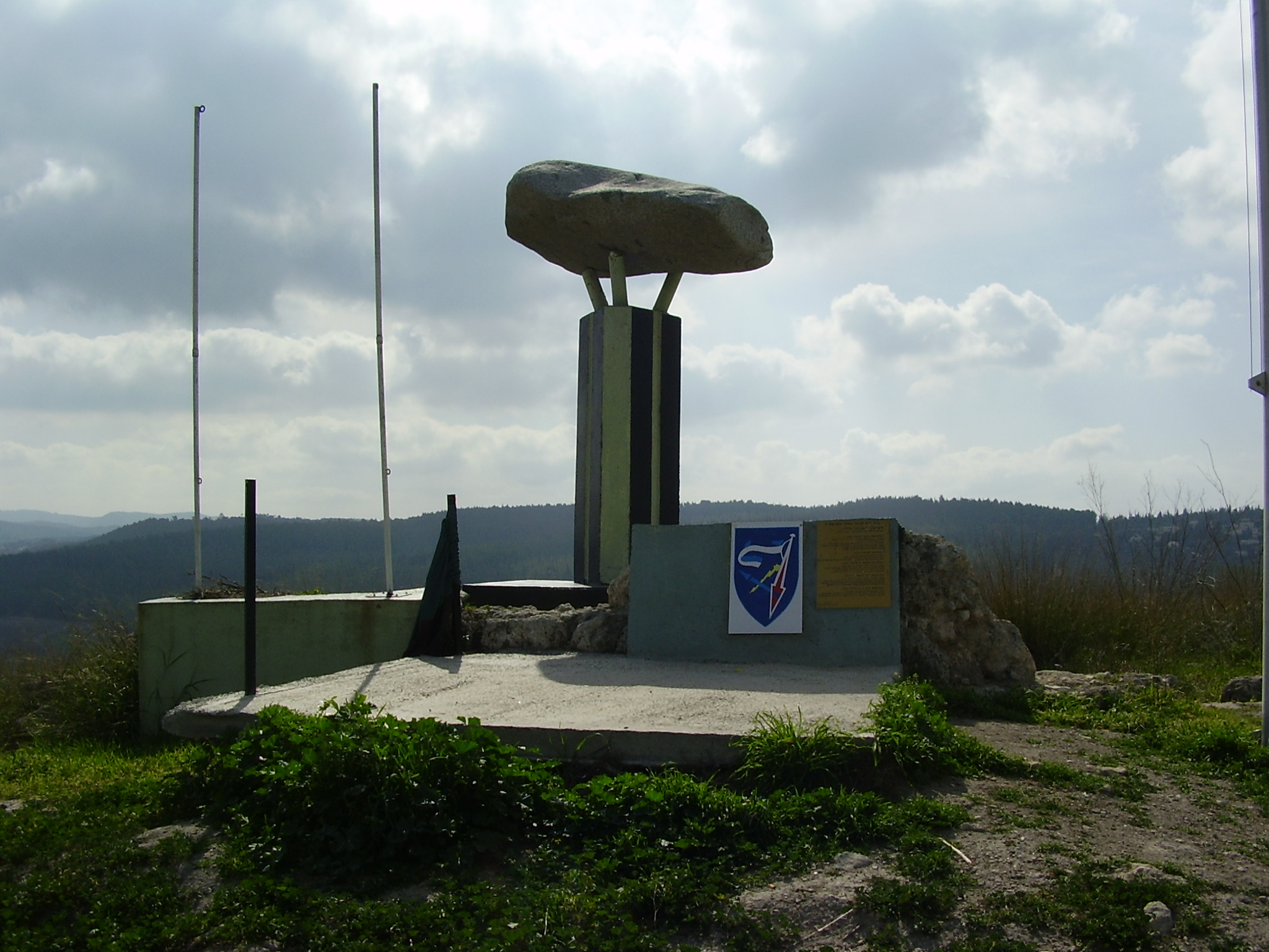 7th armored brigade memorial in latrun, israel אנדרטת חטיבה 7 בלטרון